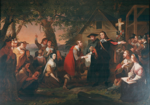 From the Senate Lounge, of the Maryland State House, in Annapolis. From a portion of the larger painting, from 1853, by artist, Tompkins Harrison Matteson, showing Stone welcoming Puritan settlers to Maryland.